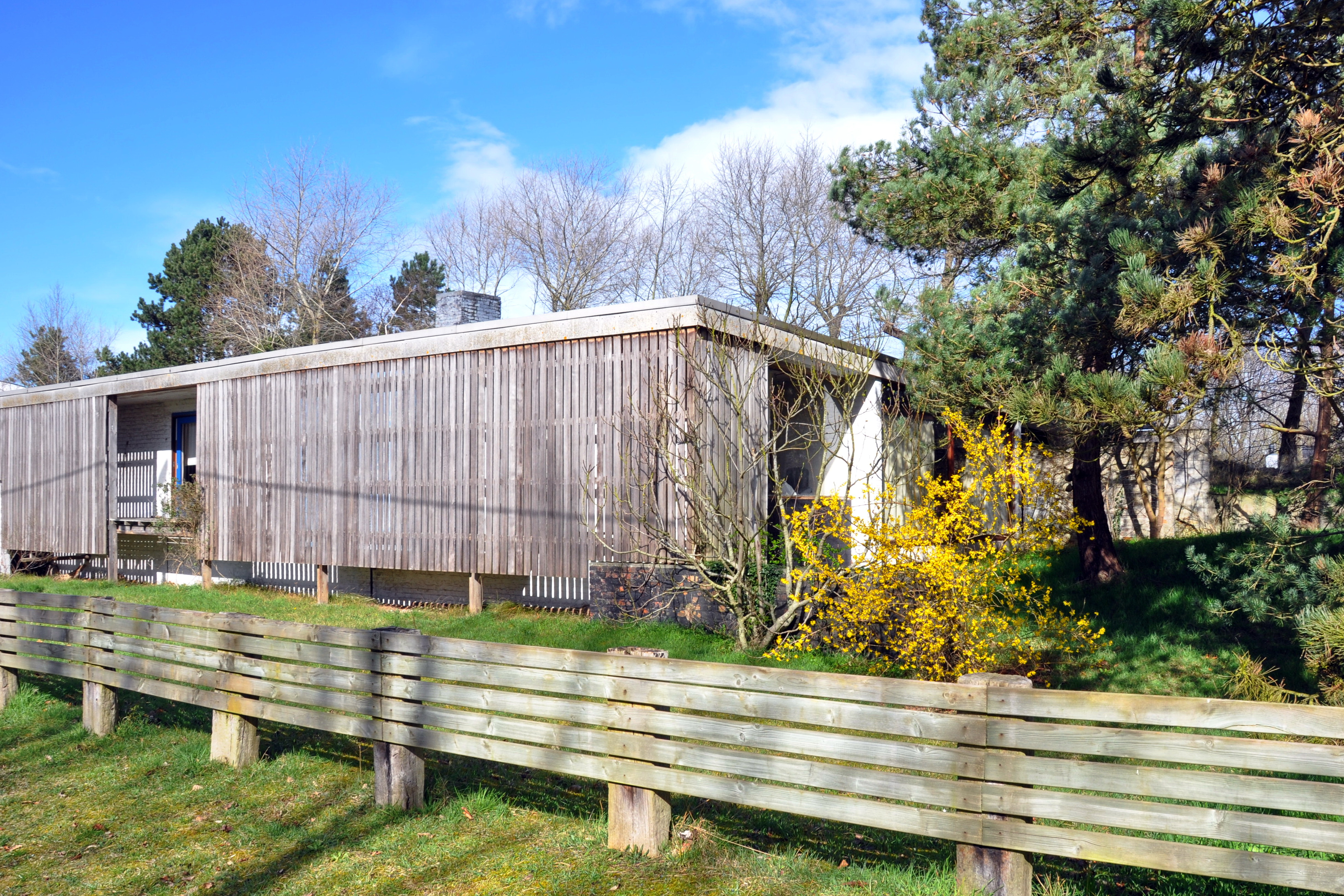 Own houses of architect Peter Callebout (1916-1970)